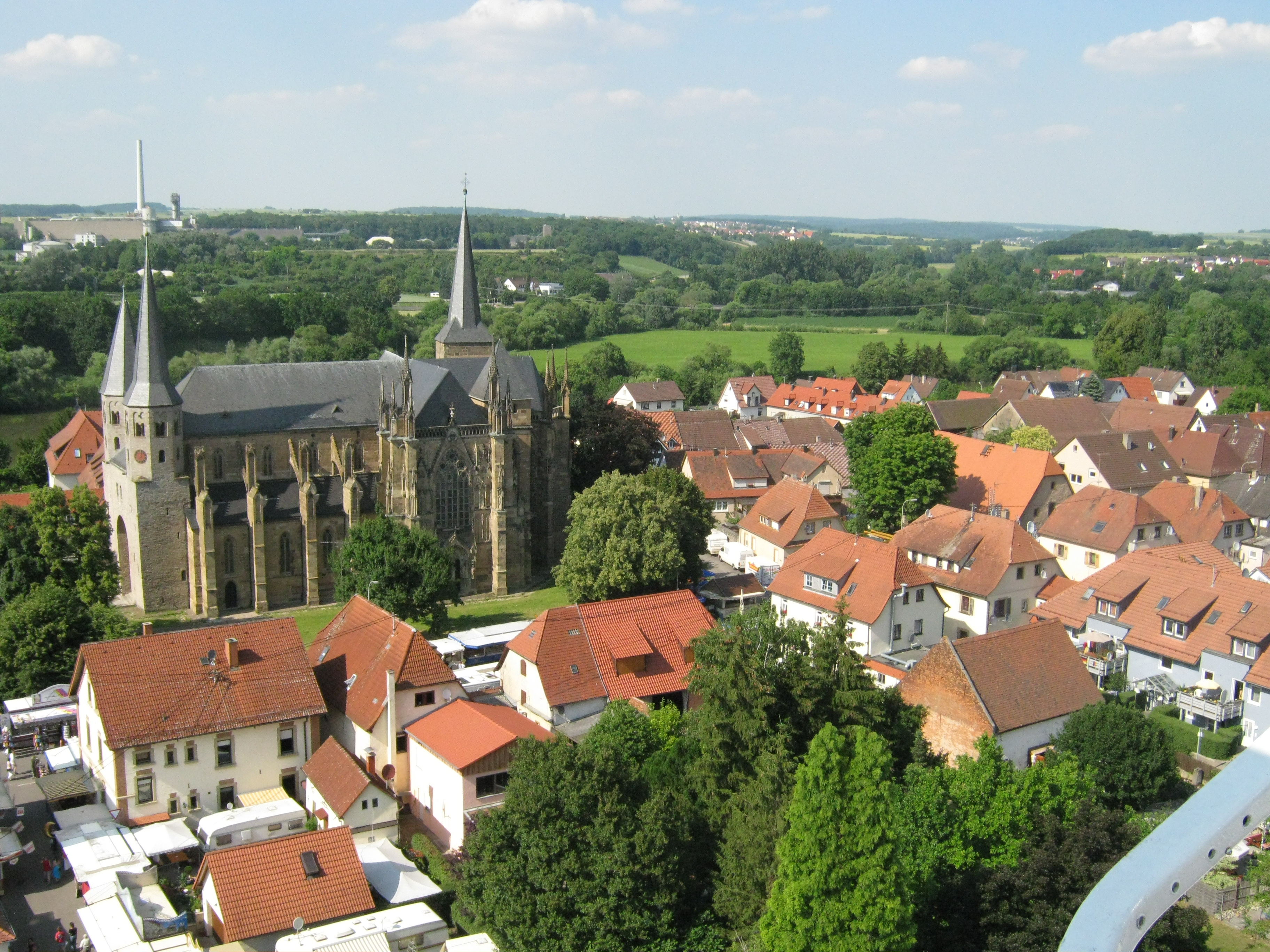 View from Ferris wheel on Talmarkt Bad Wimpfen